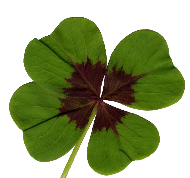 Iron Cross (Oxalis tetraphylla)